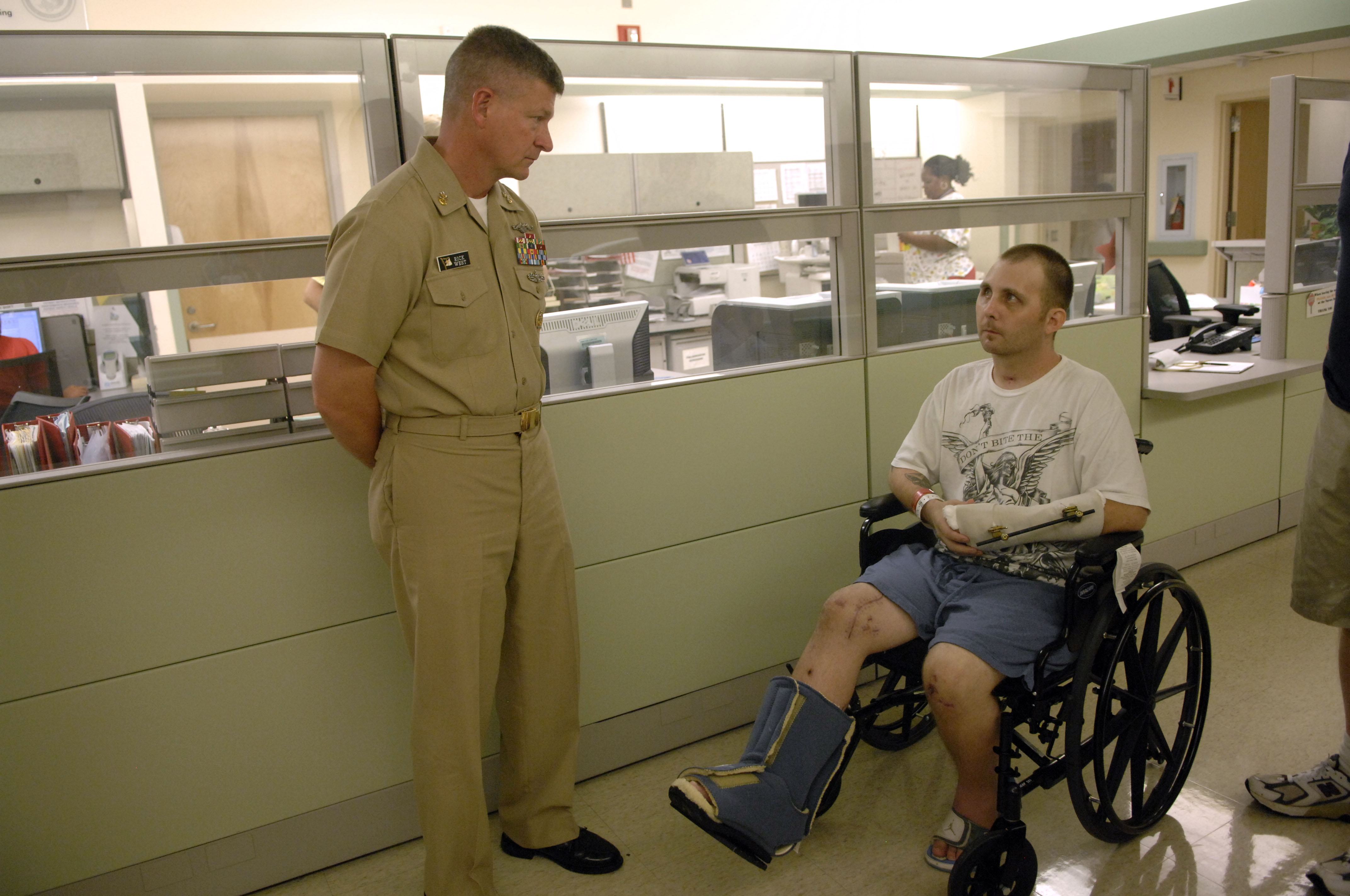 RICHMOND, Va. (Aug. 21, 2009) Master Chief Petty Officer of the Navy (MCPON) Rick West speaks with Construction Mechanic 2nd Class Michael Shepard during his visit to the Hunter Holmes McGuire Richmond VA Medical Center. Shepard was injured in a motorcycle accident in Norfolk, Va. (U.S. Navy photo by Mass Communication Specialist 1st Class Jennifer A. Villalovos/Released)